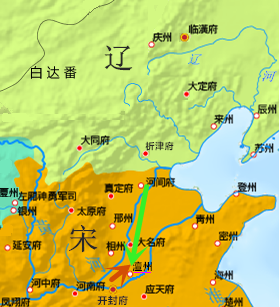 Map of the two dynasties, Liao Dynasty in Green, Song in Orange.